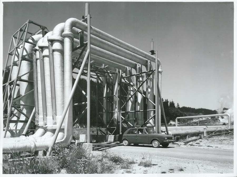 Title: Geothermal Power Project Publicity Caption: Wairakei Geothermal Valley Steam Pipes Photographer: R Anderson November 1968 Archives New Zealand Reference: AAQT 6539 W3537 86 / A88456 For further enquiries Material from Archives New Zealand Te Rua Mahara o te Kāwanatanga